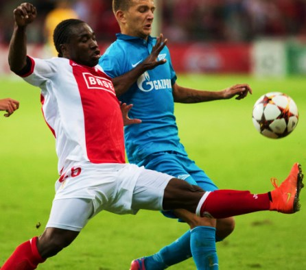 Jeff Louis